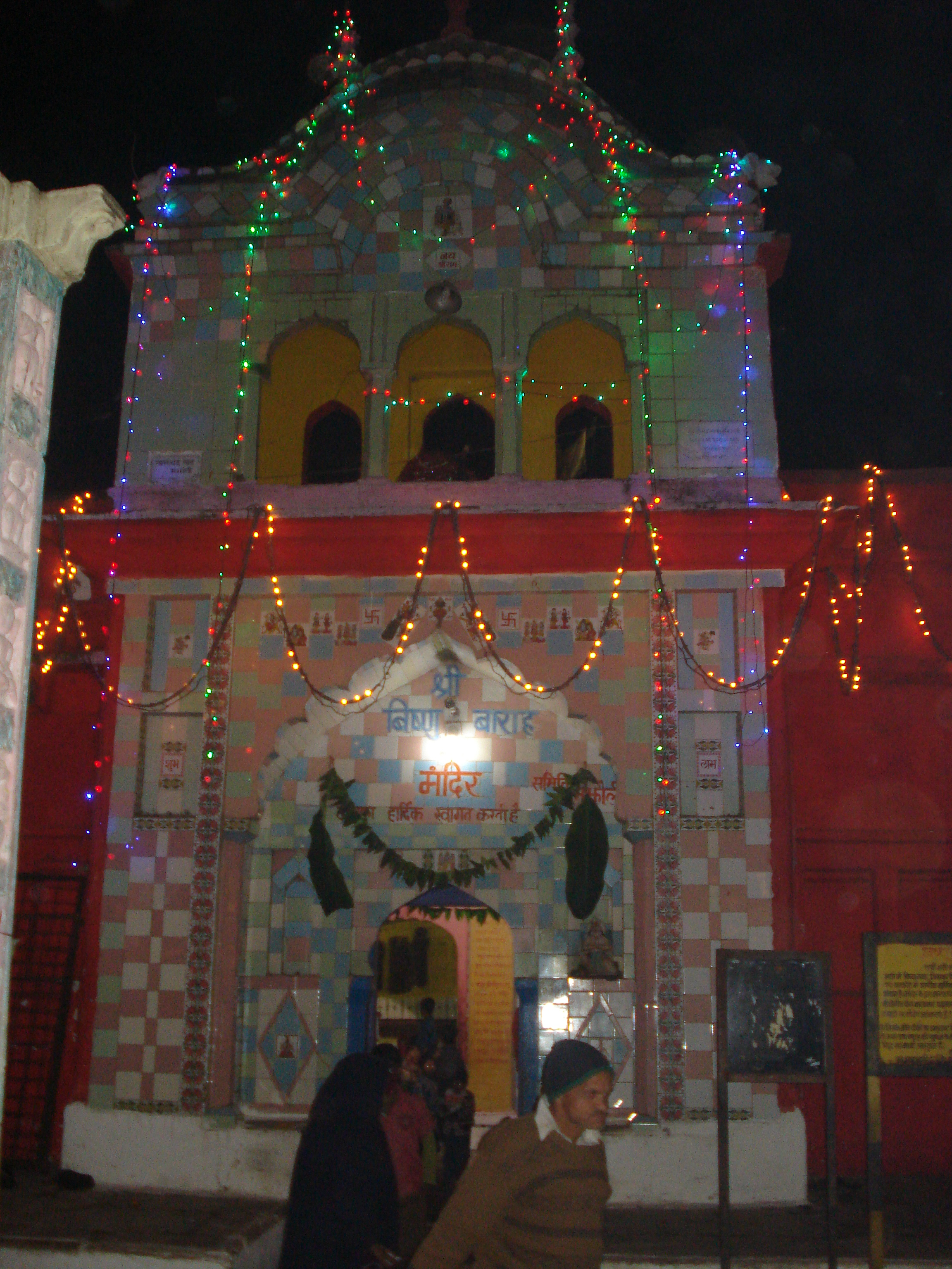 This is temple's entrance gate.